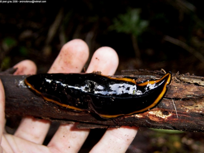 Polycladus gayi Blanchard, 1845, a large Geoplanidae from the Valdivian rainforests of southern Chile